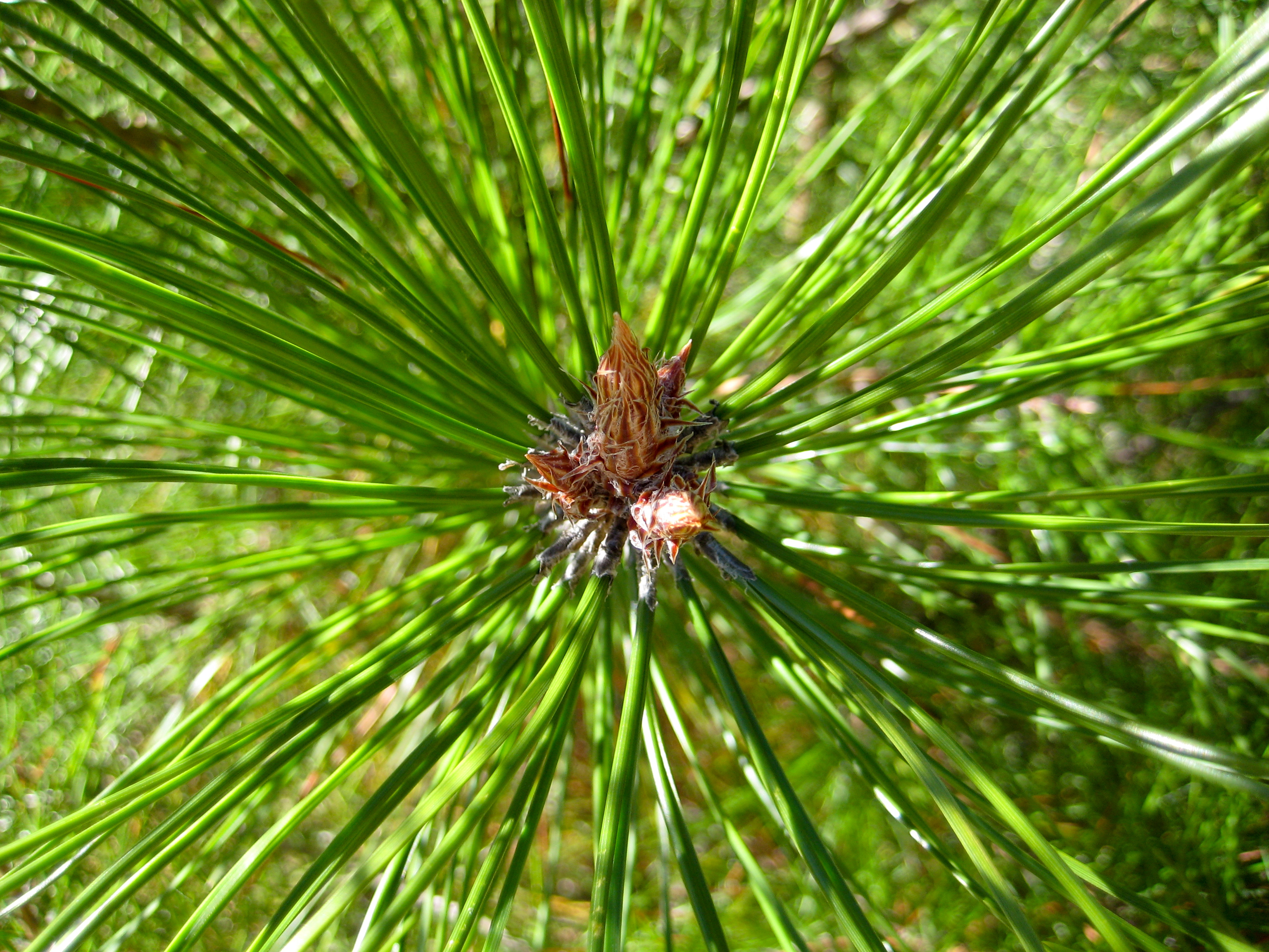 Pinus densata foliage and buds. Jiuzhaigou Valley, Sichuan - 九寨沟 四川.